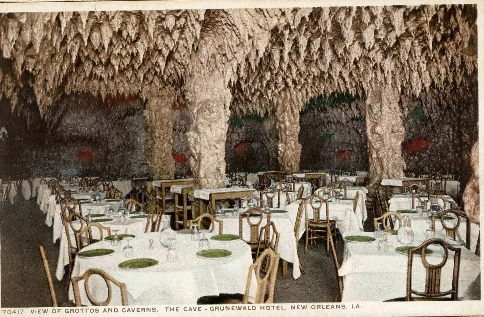 Postcard of New Orleans. "View of Grottos and Caverns. The Cave - Grunewald Hotel". "The Cave" was a room in the basement of the Grunewald (later Roosevelt) Hotel, sometimes considered one of the first nightclubs in the United States, open c. 1912- 1927. Jazz bands by such notables as Tony Parenti, Johnny Bayersdorffer, and Johnny DeDroit played here. (per book "New Orleans Jazz, A Family Album" by Al Rose & Edmond Souchon)